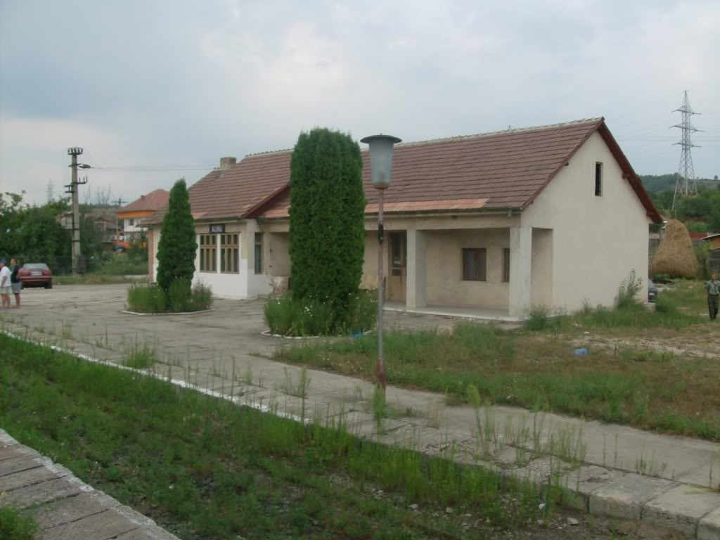 Staţia Alunu (Alunu railway station)